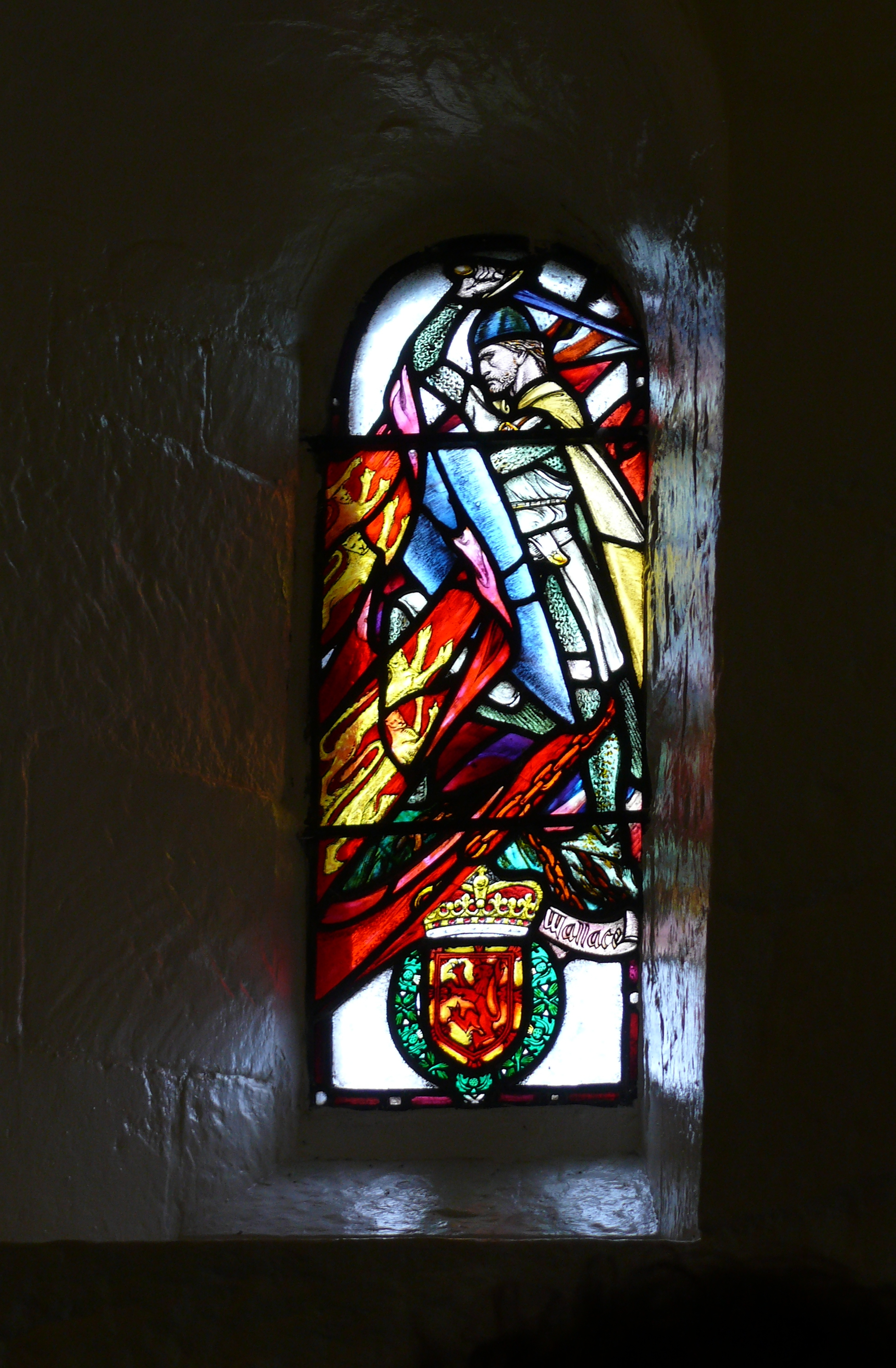 Stained glass window seen from inside St Margaret's Chapel, Edinburgh. St Margaret's Chapel is the oldest part of Edinburgh Castle, the only part left by Robert the Bruce after its recapture from the English.